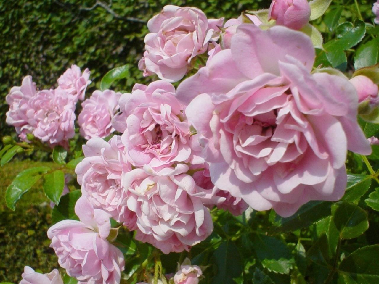 Image title: The queen of sweden roses Image from Public domain images website